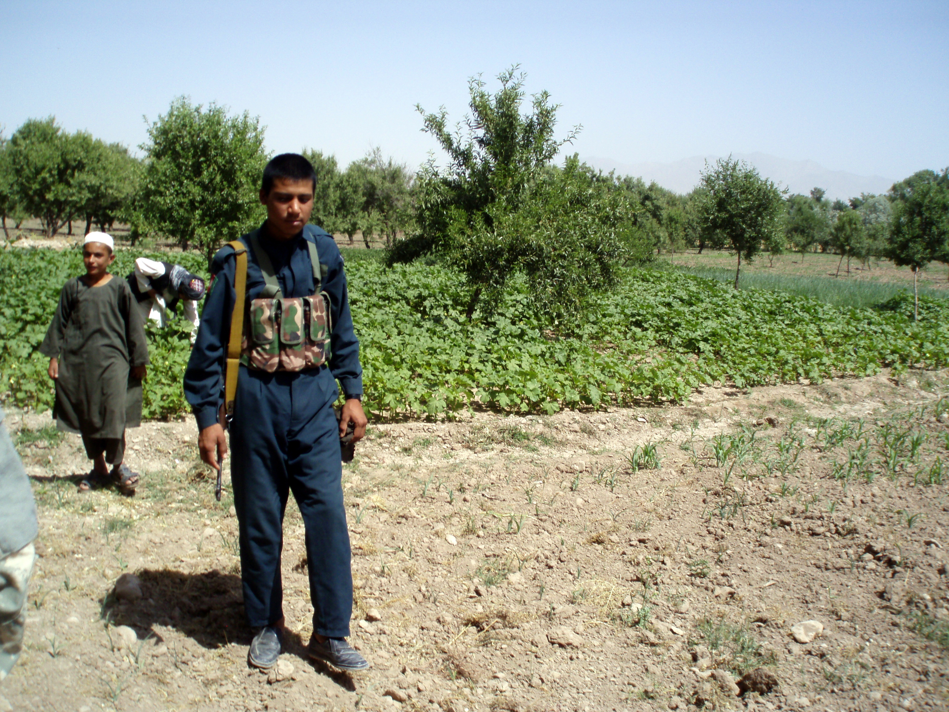 Near Tarin Kowt. Afghan National Police member during foot patrol in green zone.